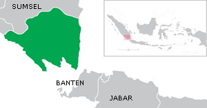 Map of Lampung province, Sumatra island, Indonesia